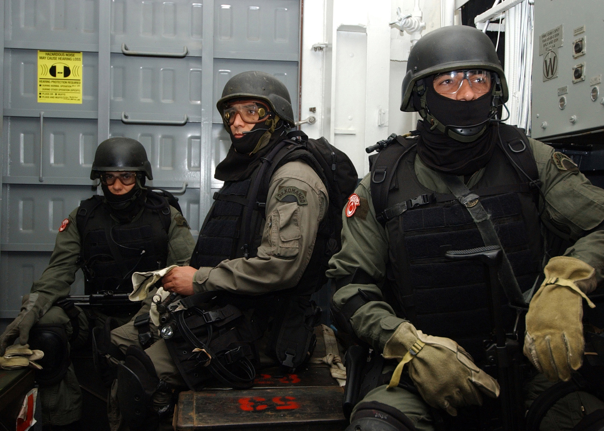 Description: Turkish navy sailors aboard USS Nassau (LHA 4) stand by aboard to conduct maritime interdiction operations, as part of exercise Phoenix Express 2007 being conducted in the Atlantic Ocean. The two-week exercise, designed to strengthen regional partnerships, is focused on increased maritime domain awareness, better information sharing practices and the ability to operate jointly. Location: Onboard the USS Nassau (LHA 4) in the Atlantic Ocean Date Photo Taken: April 17, 2007